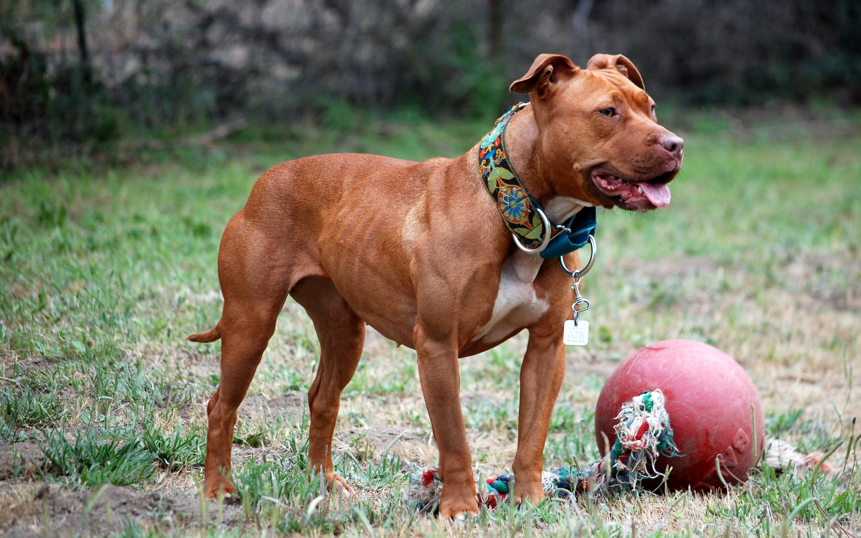 Ginger